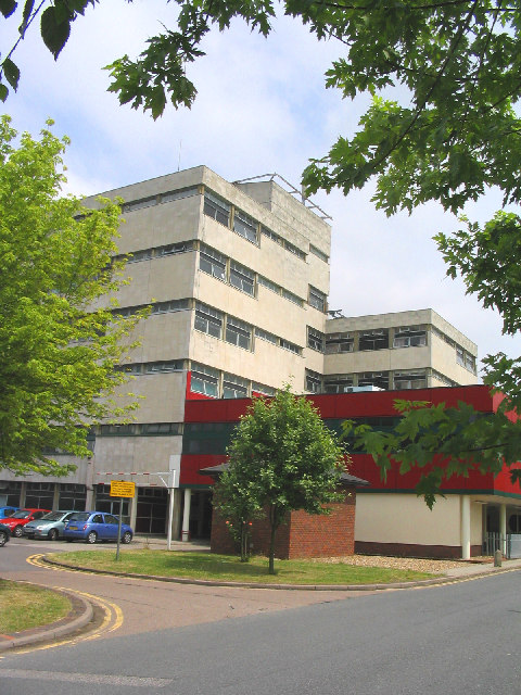 Harold Wood Hospital, Harold Wood, Essex.